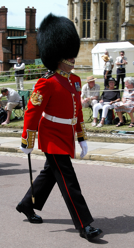 Garrison Sergeant Major, London District, WO1 William 'Billy' Mott at Windsor Castle for the Garter Ceremony.